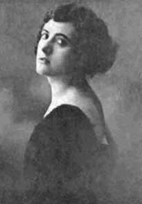 Actress Lola Visconti (1891-1924)